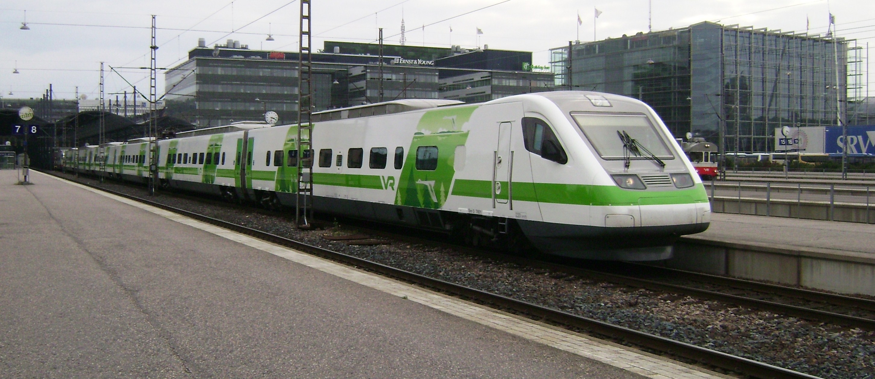 Finnish Pendolino with new green livery at Helsinki Central railway station.